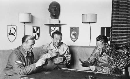 Informal photograph of Leutnant (Lt) Gerd Steiger, Lt. Horati Schmude and Lt. Dieter Gerhard three Luftwaffe pilots of 2/JG 1 (2nd Squadron, 1st Fighter Wing) playing cards in the mess room at Jever, Germany. Note the squadron emblems and the bust of Adolf Hitler attached to the walls behind the men.